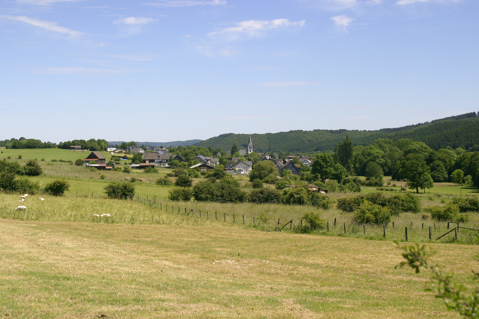 View on Medelon (Germany) from west